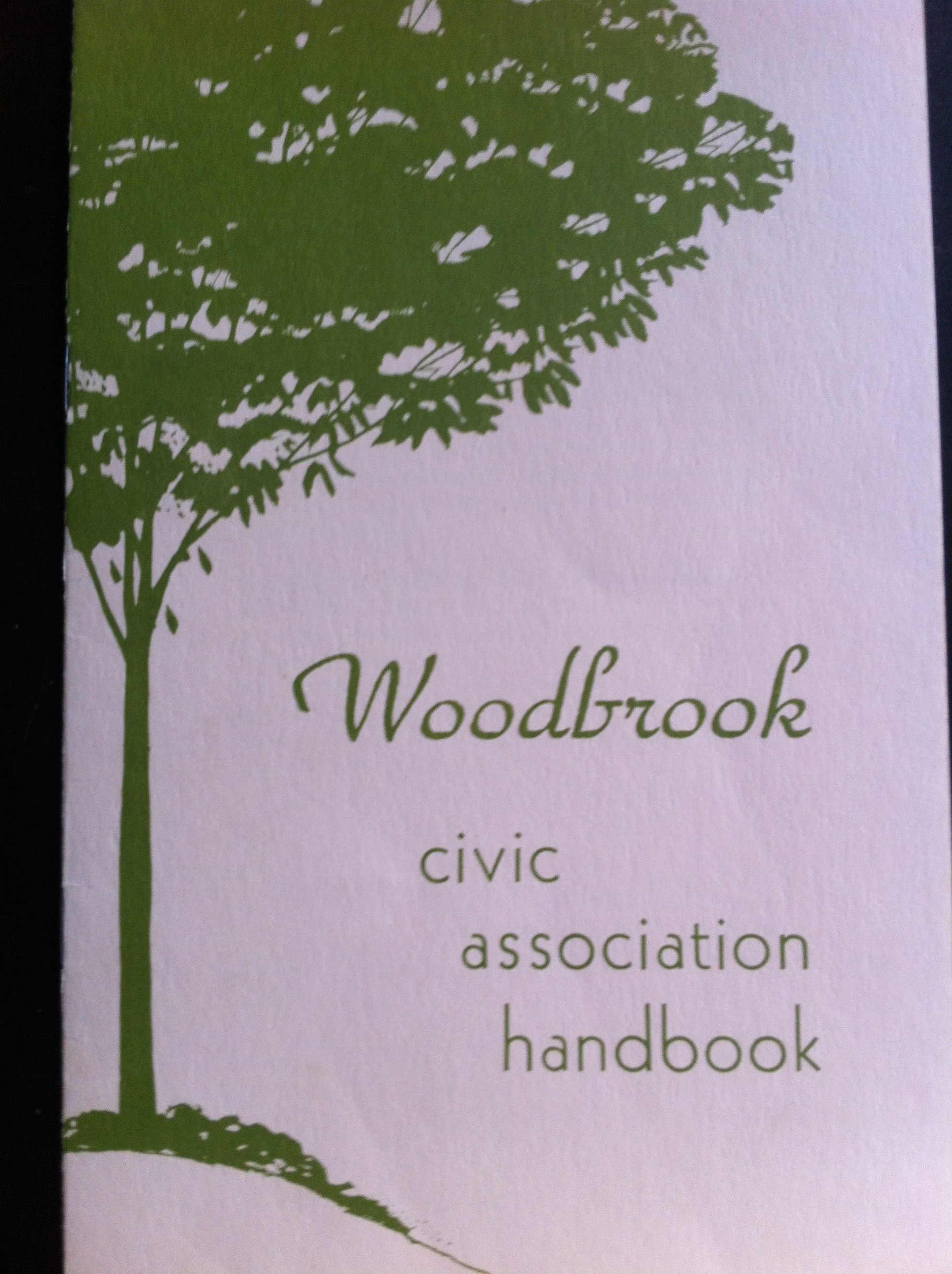 iPhone photo of Woodbrook Civic Association handbook